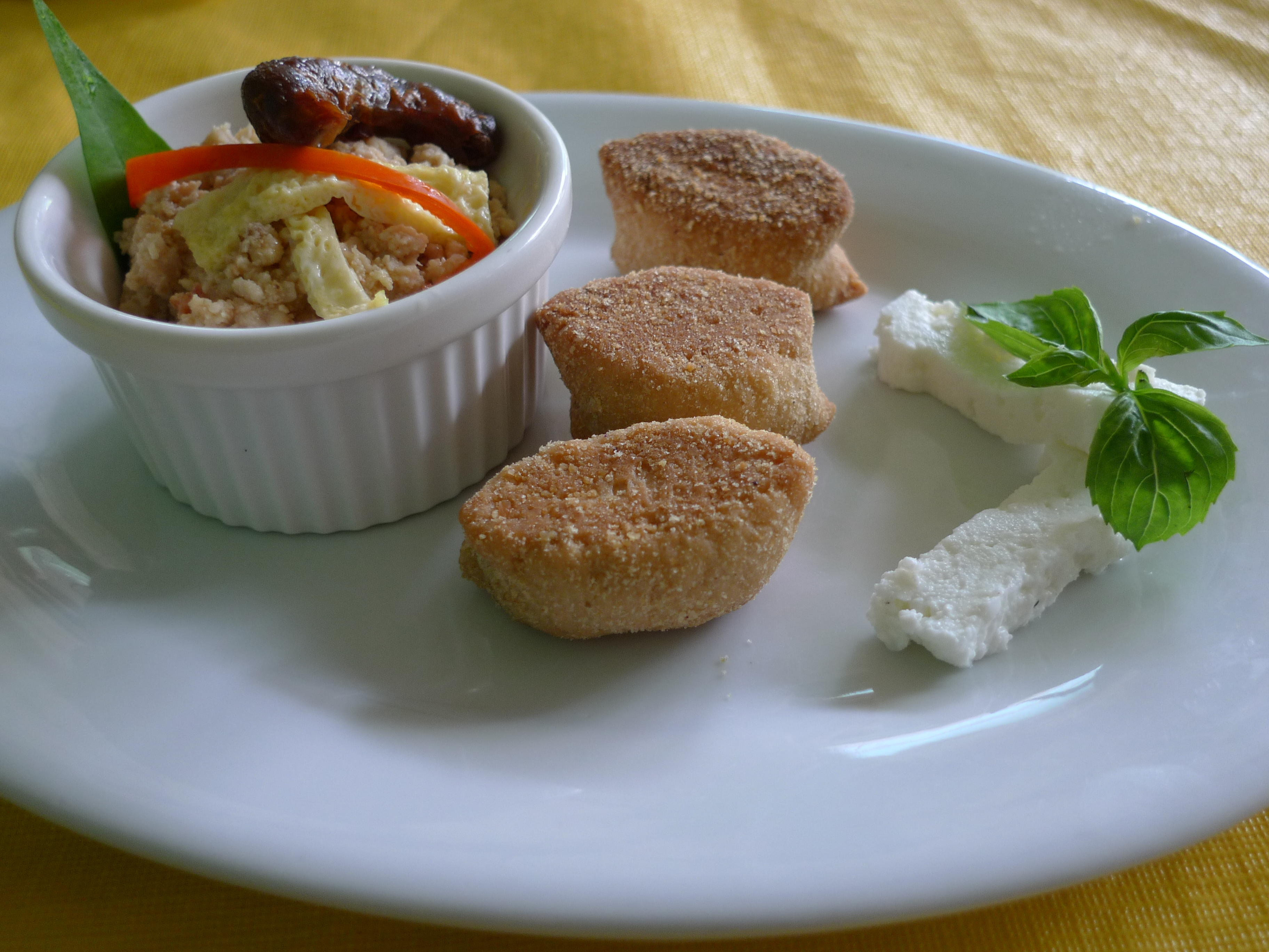 Pampanga Prado Farm - Sausage, Egg, Kesong Puti, and Pan de Sal